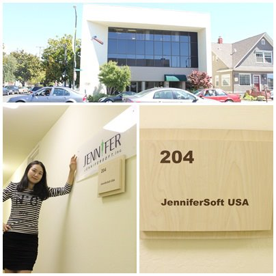 JenniferSoft USA HQ